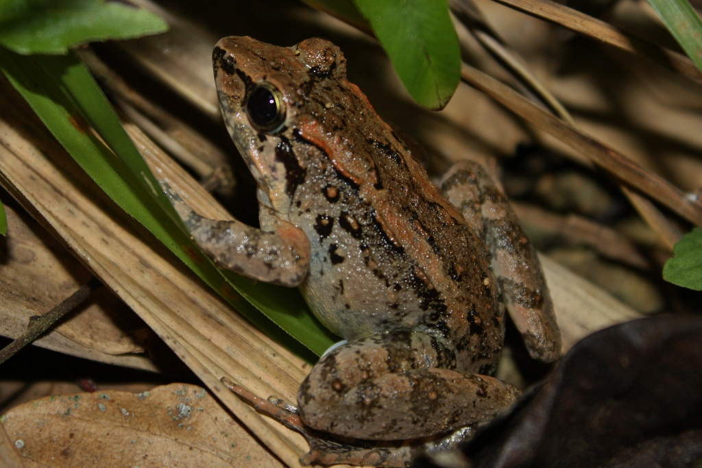 Found next to the Loboc river on Bohol. Thanks to Arvin Diesmos for the identification.